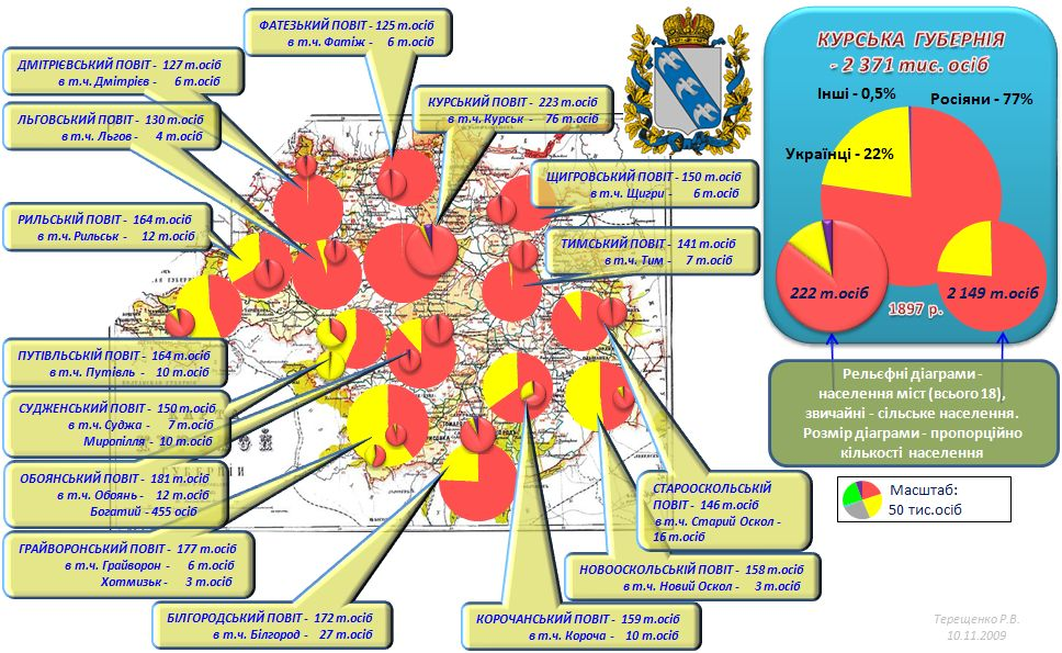 Ethnic groups Kursk province according to Census 1897